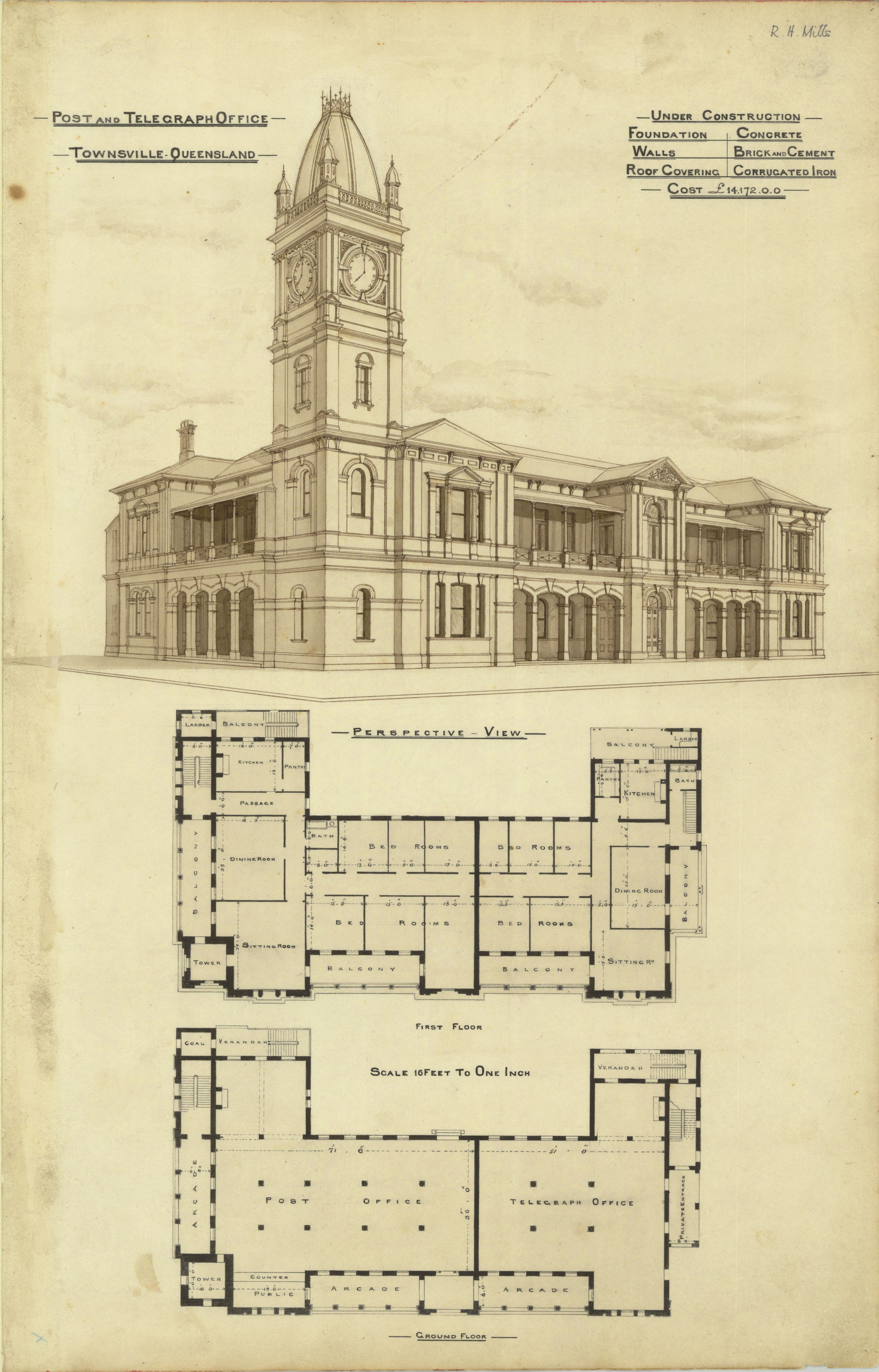 Post & Telegraph Office Townsville Queensland, circa 1888